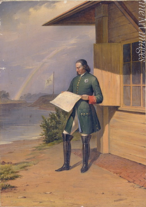 Peter I on the Bank of the Neva River // State Russian Museum, St. Petersburg